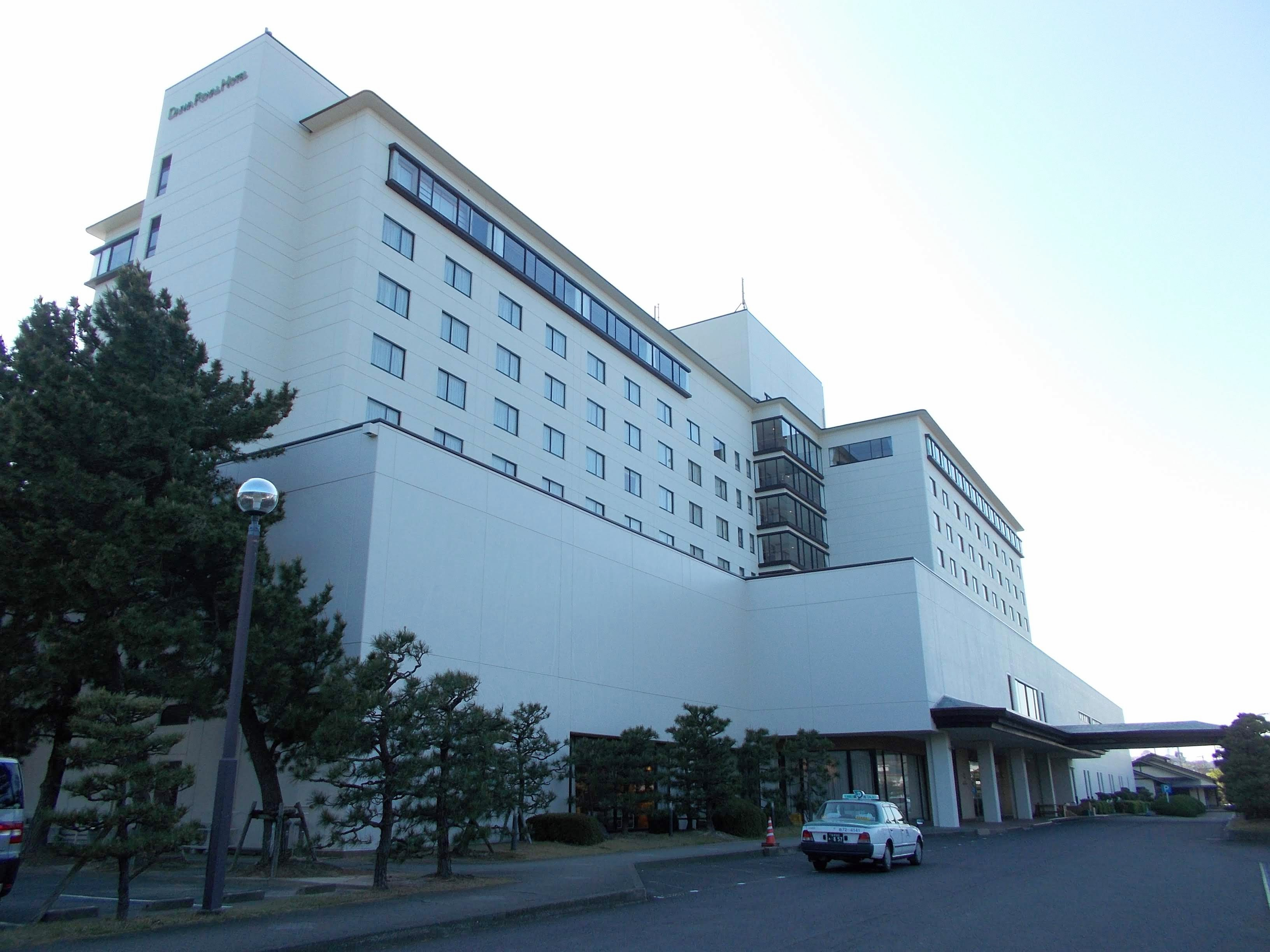 Hotel & Resorts SAGA-KARATSU, Karatsu, Saga, Japan